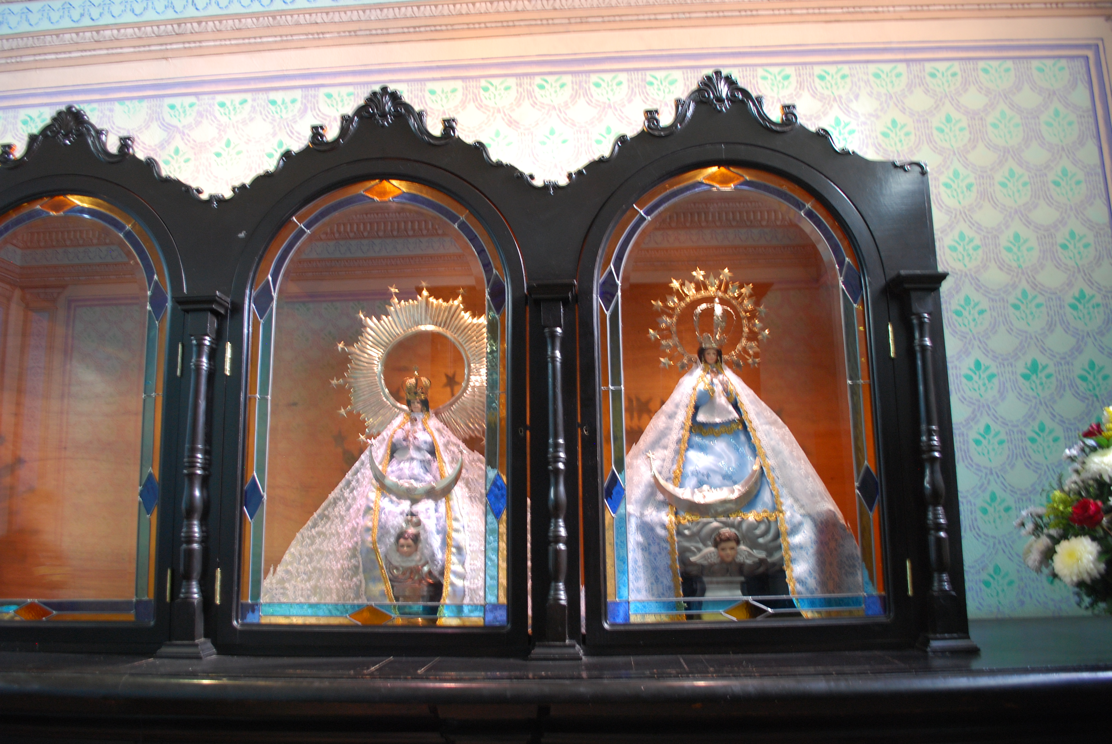 Two of the replicas of the Virgin of the Remedies used for processions at the Nuestra Señora de los Remedios in Cholula, Puebla, Mexico